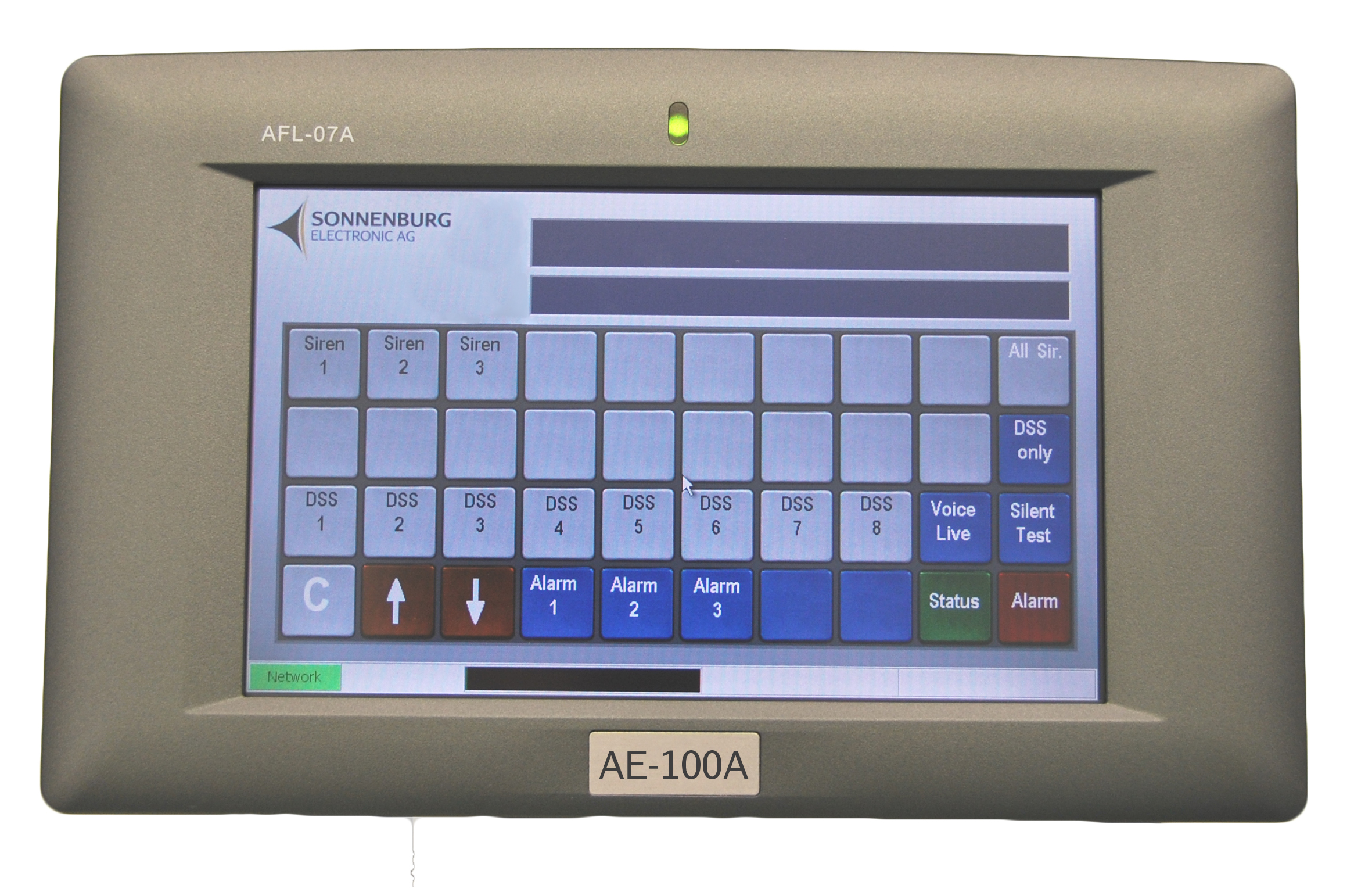 Alarming Device AE-100A von SONNENBURG